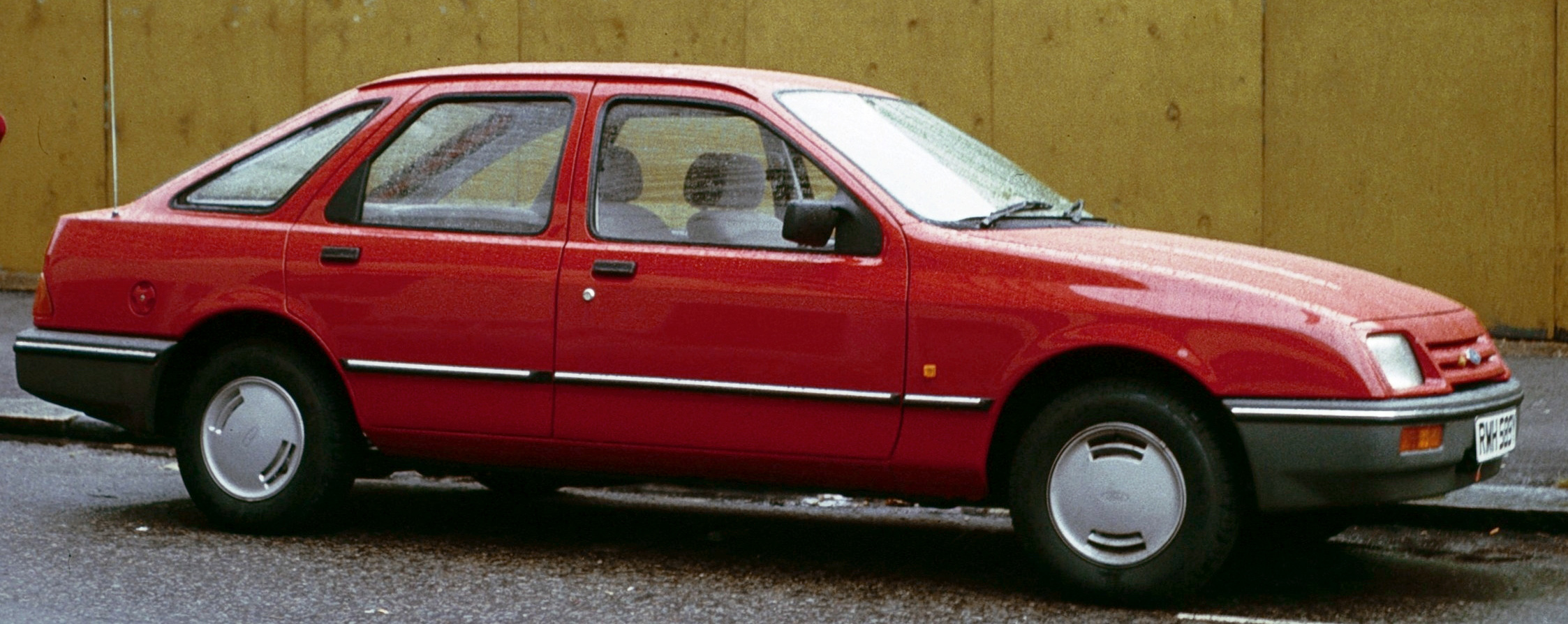 Ford Sierra 5 door - an early example